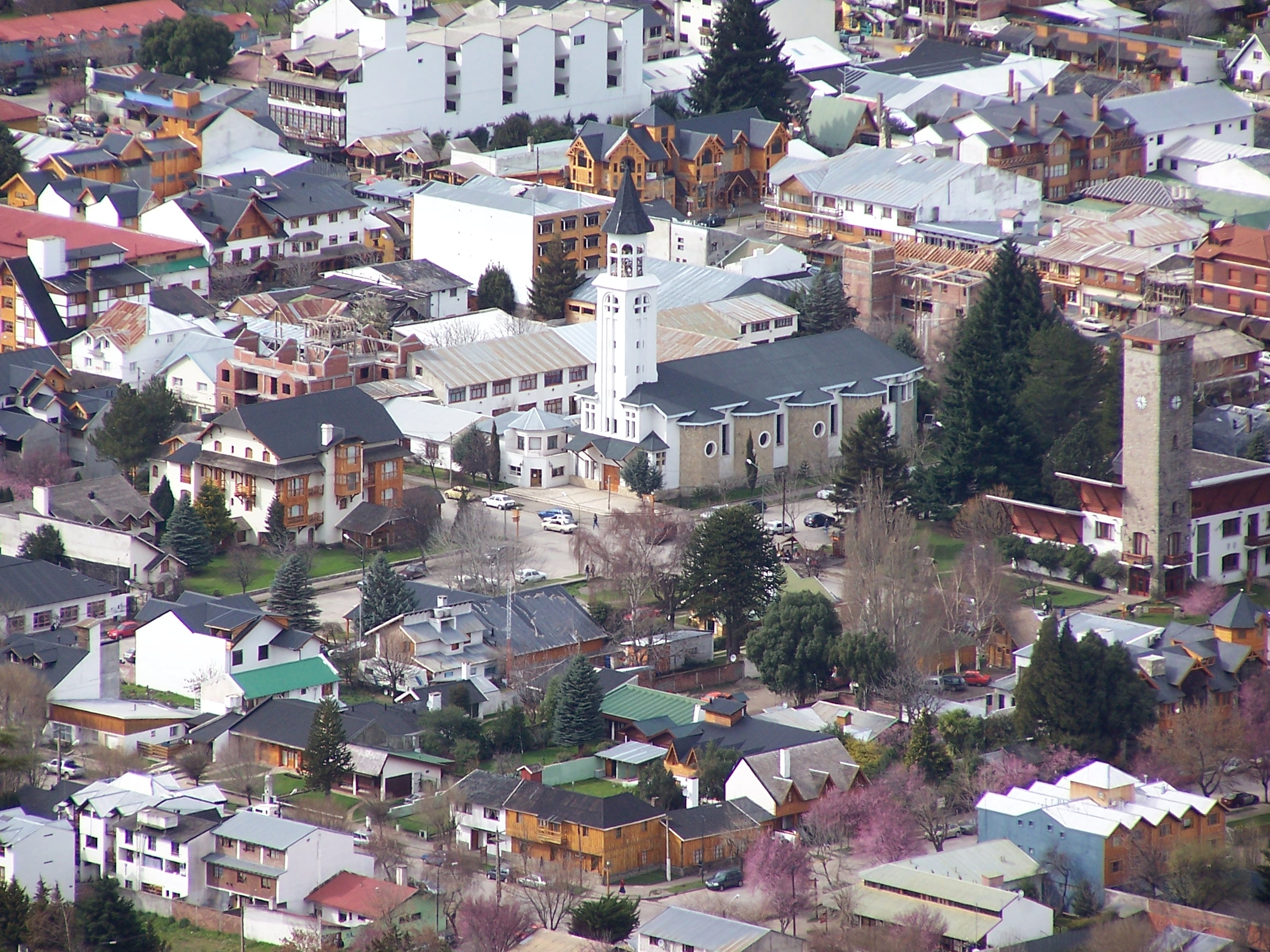 Close to the centre of the village